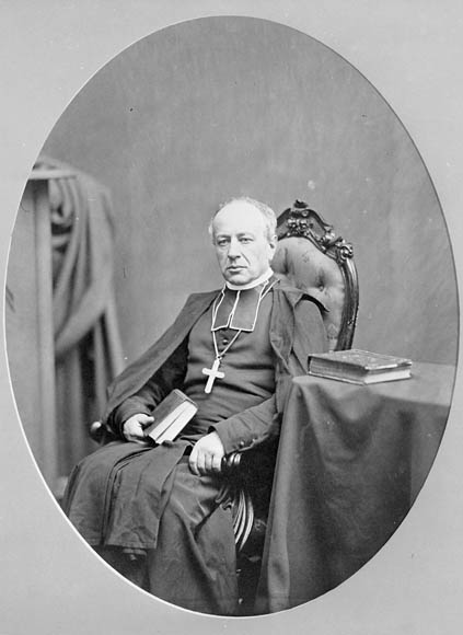 Elzéar-Alexandre Taschereau, 1871, Archbishop of Quebec